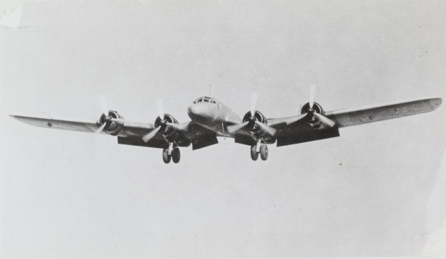 PictionID:38235000 - Catalog:Array - Title:Array - Filename:15_002288.TIF - -------Image from the Charles Daniels Photo Collection.----Album: German Aircraft.-----------PLEASE TAG these images with any information you know about them so that we can permanently store this data with the original image file in our Digital Asset Management System.-----------------SOURCE INSTITUTION: San Diego Air and Space Museum Archive